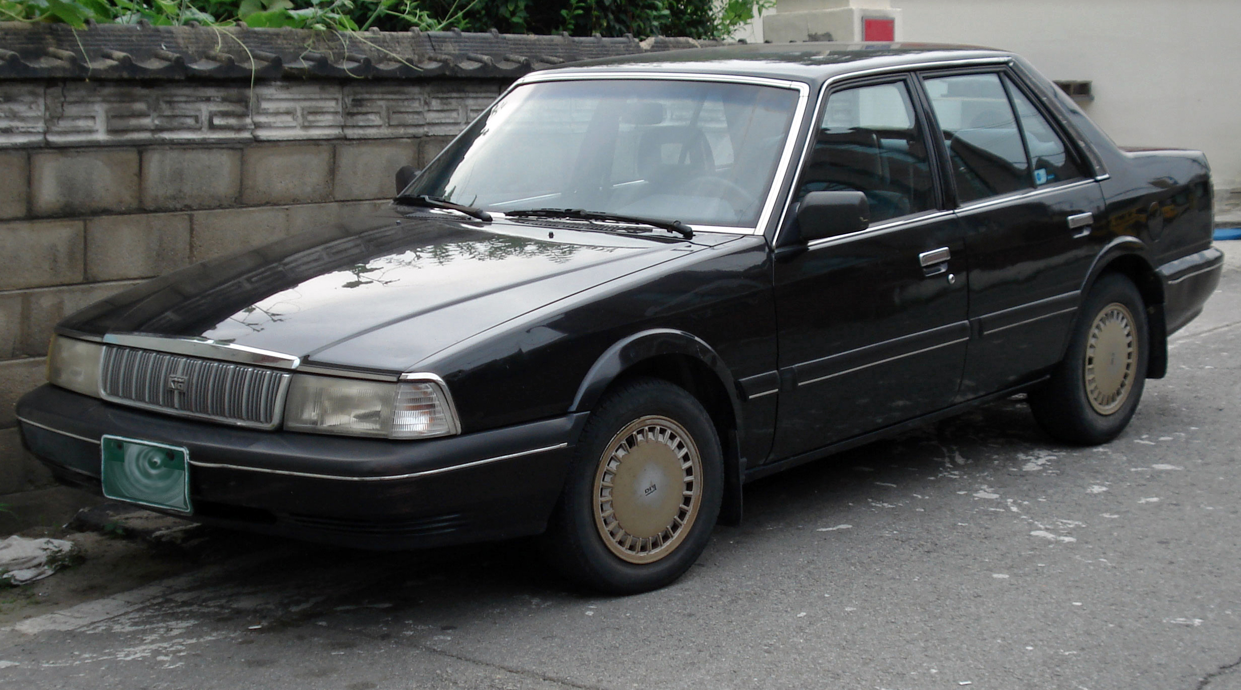 Kia New Concord